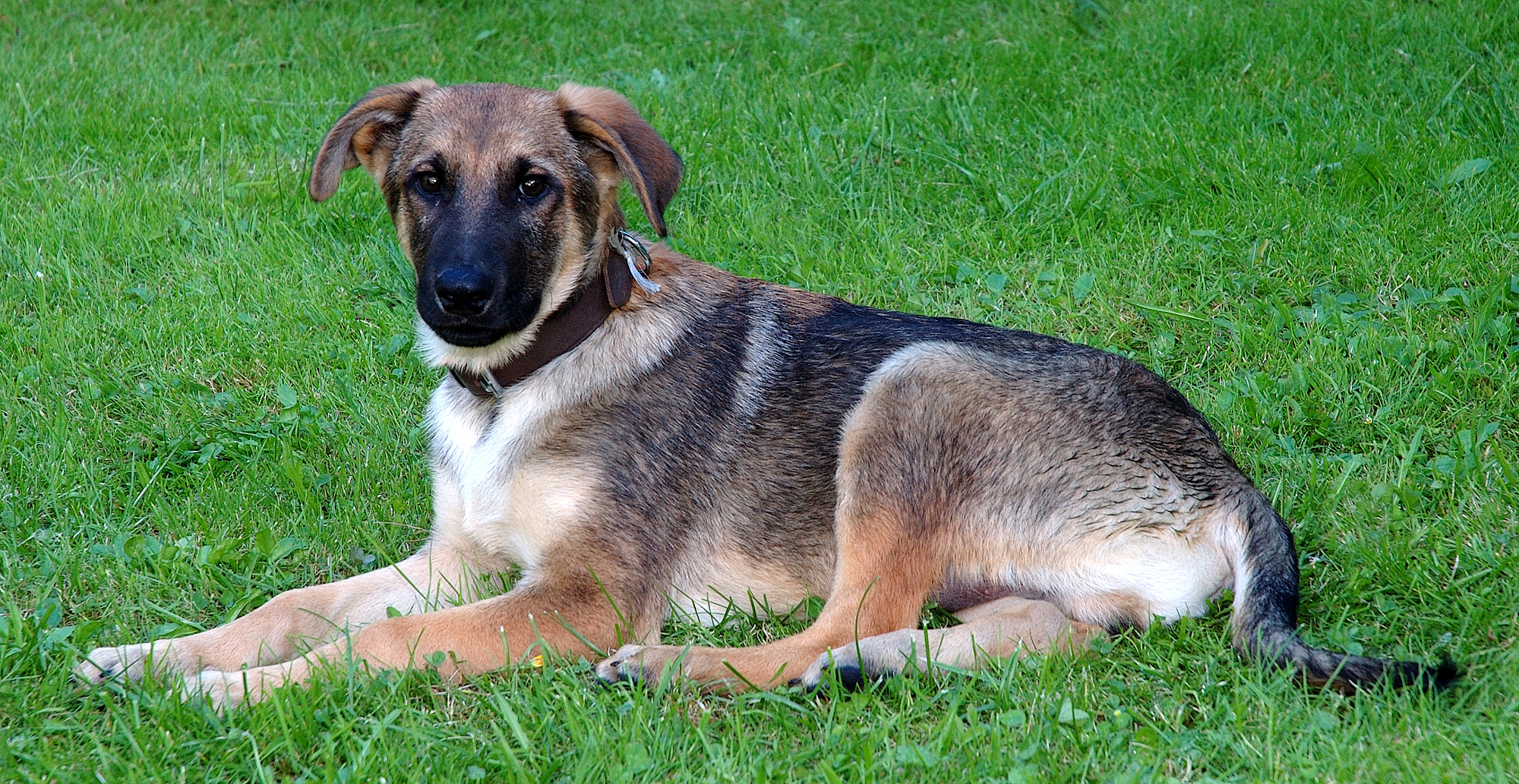 This image shows a young mixed-breed dog. The parents are a white shepherd dog and an alsatian dog.